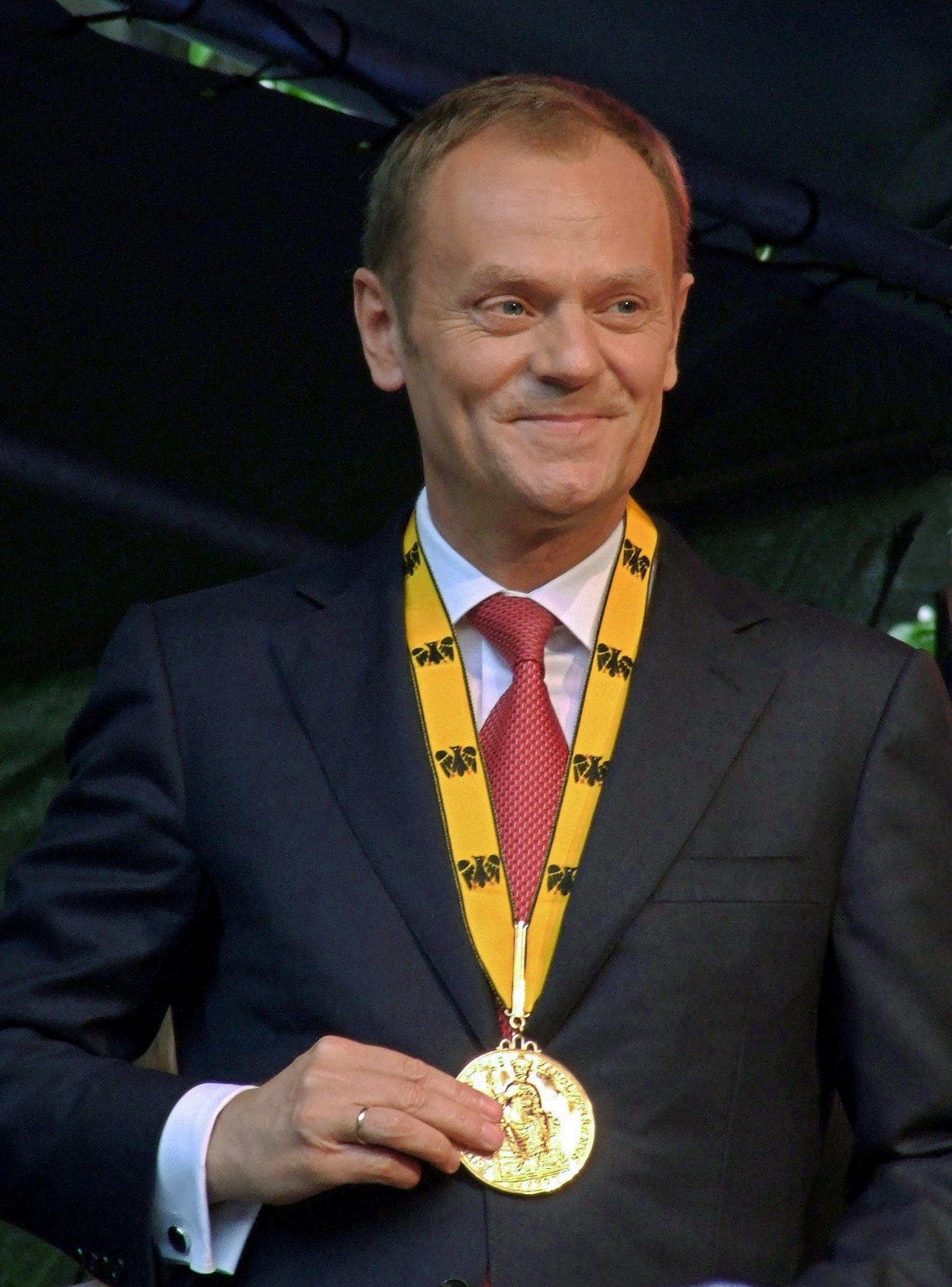 Donald Tusk at the Charlemagne Prize celebration 2010